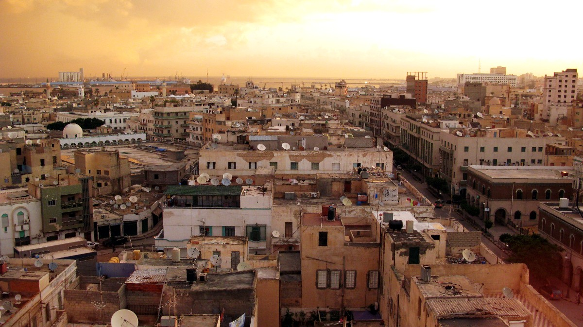 Tripoli, Libya.